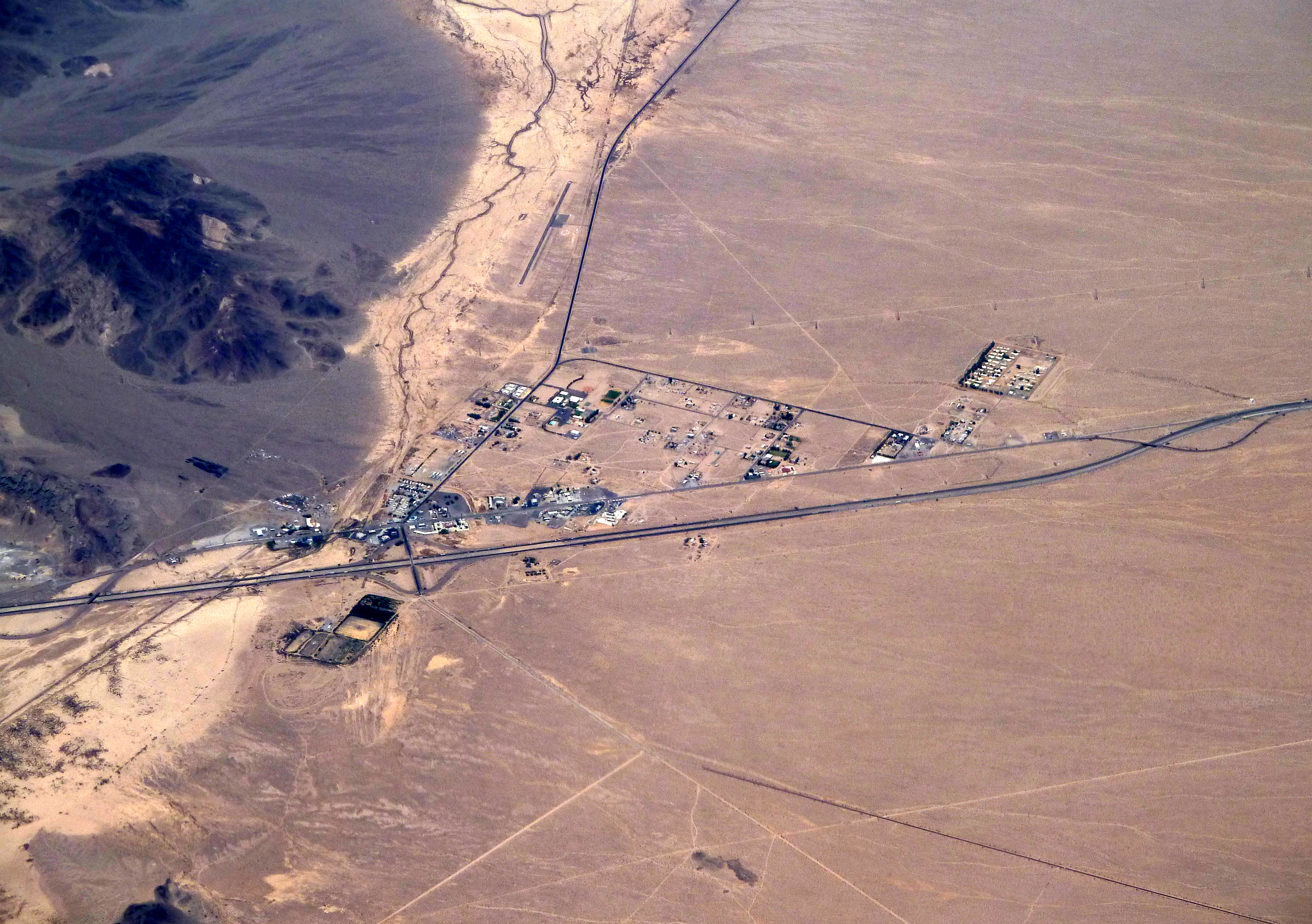 Aerial view of Baker, Mojave Desert, California, USA.